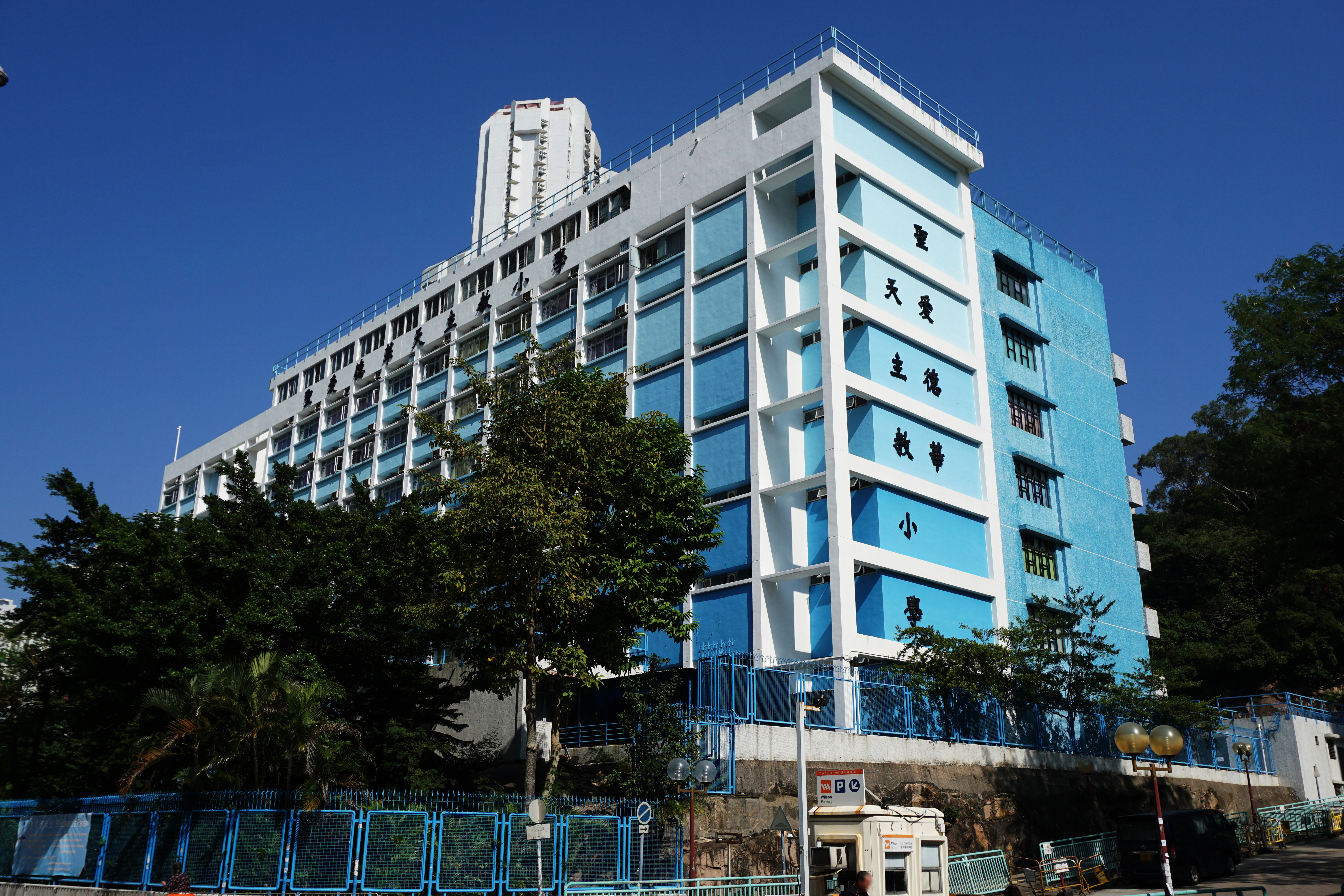 St. Edward's Catholic Primary School in Lam Tin, Hong Kong.